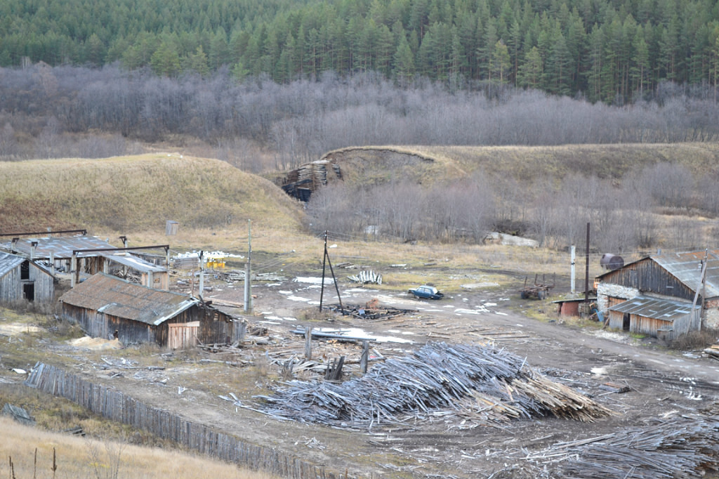 Russia. Schemakha (Nyazepetrovsky rayon)